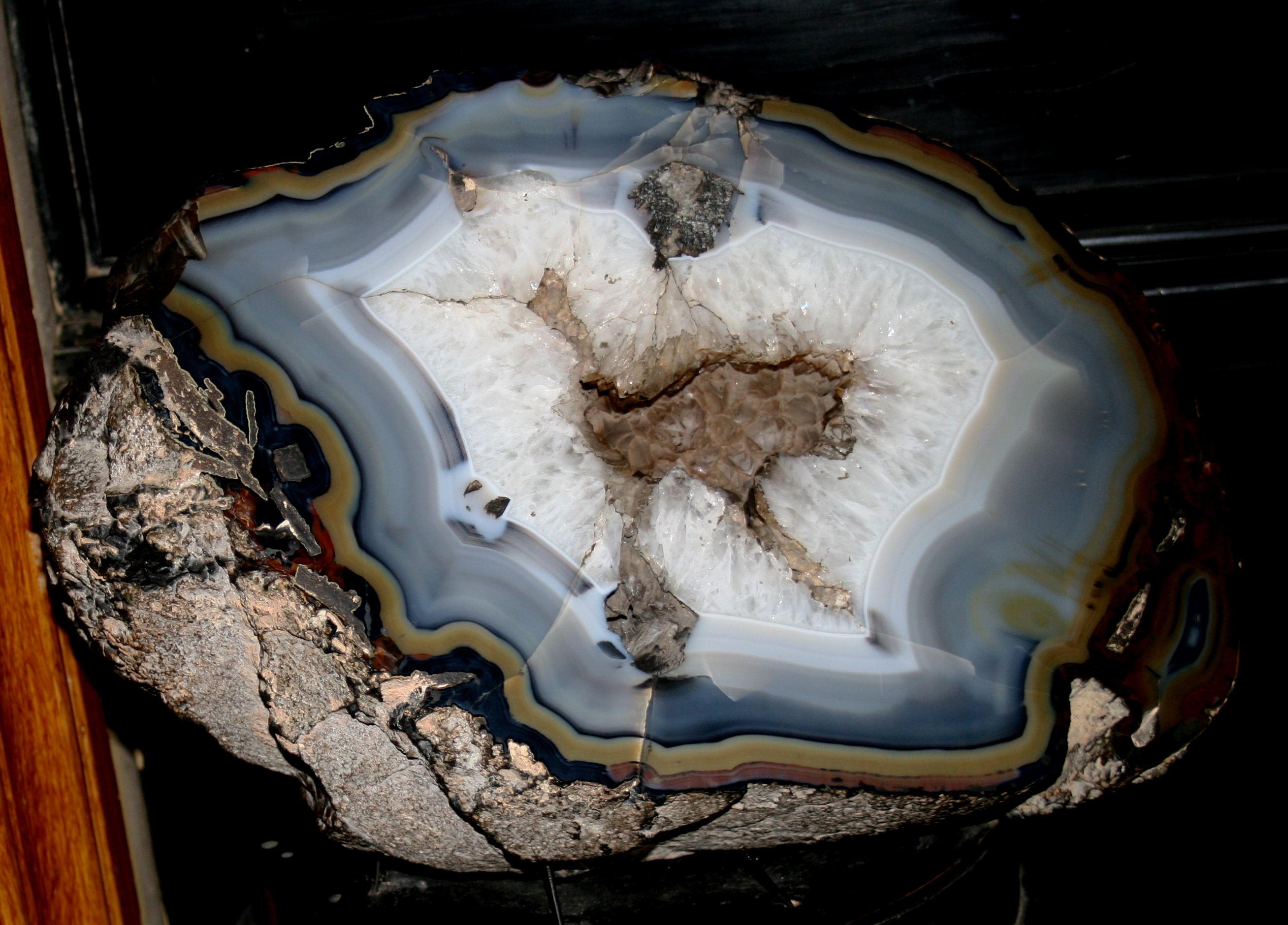 Mineral agate, chemical composition: SiO2, from collection of National Museum, Prague, Czech Republic, originally from Uruguay